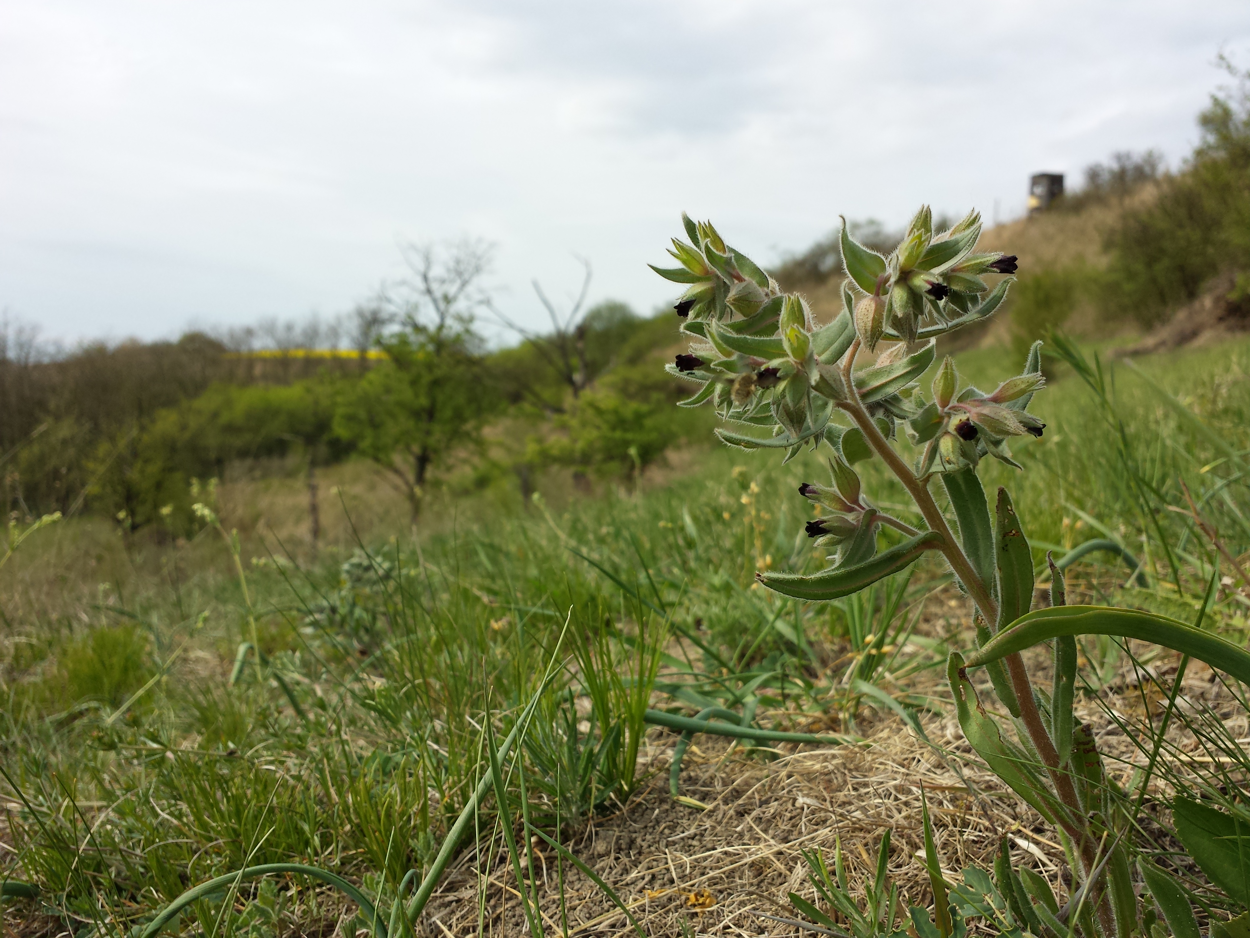 Habitus Taxon: Nonea pulla (sensu Fischer et al. EfÖLS 2008 ISBN 978-3-85474-187-9) Location: nature reserve Mühlberg, district Hollabrunn, Lower Austria - ca. 260 m a.s.l. Habitat: dry grassland over Loess This media shows the nature reserve in Lower Austria with the ID 9.